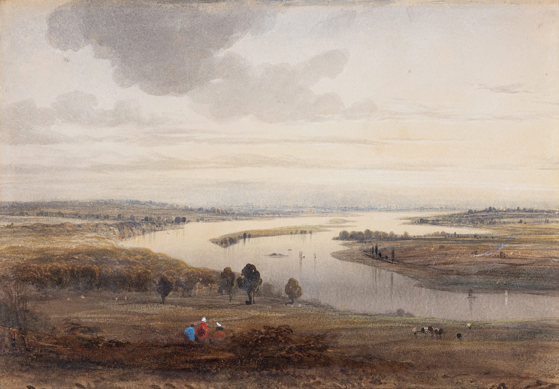 Offered for sale by Abbott and Holder in March 2020 when it was described as "The Tyne at Gateshead. Watercolour with gum Arabic. 8.5x12.25 inches."